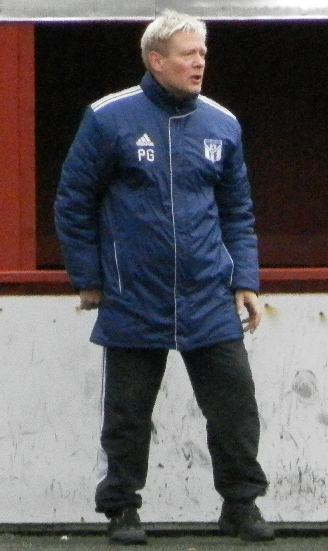 Páll Hagbert Guðlaugsson is an Icelandic association football coach. He was the first manager for the national football team of the Faroe Islands, when they started to compete in international football (soccer) competitions. This photo was taken in 2012, when he was manager for KÍ Klaksvík. This was during the away match against FC Suðuroy on 30. June 2012. Føroyskt: Páll Guðlaugsson var fyrsti venjarin hjá føroyska A-landsliðnum hjá monnum. Hann var venjari, tá Føroyar vunnu móti Eysturríki í 1990. Í 2012 er hann venjari hjá Kí. Hann hevur fyrr verið venjari hjá øðrum føroyskum liðum: ÍF, EB/Streymur, B36 og GÍ.